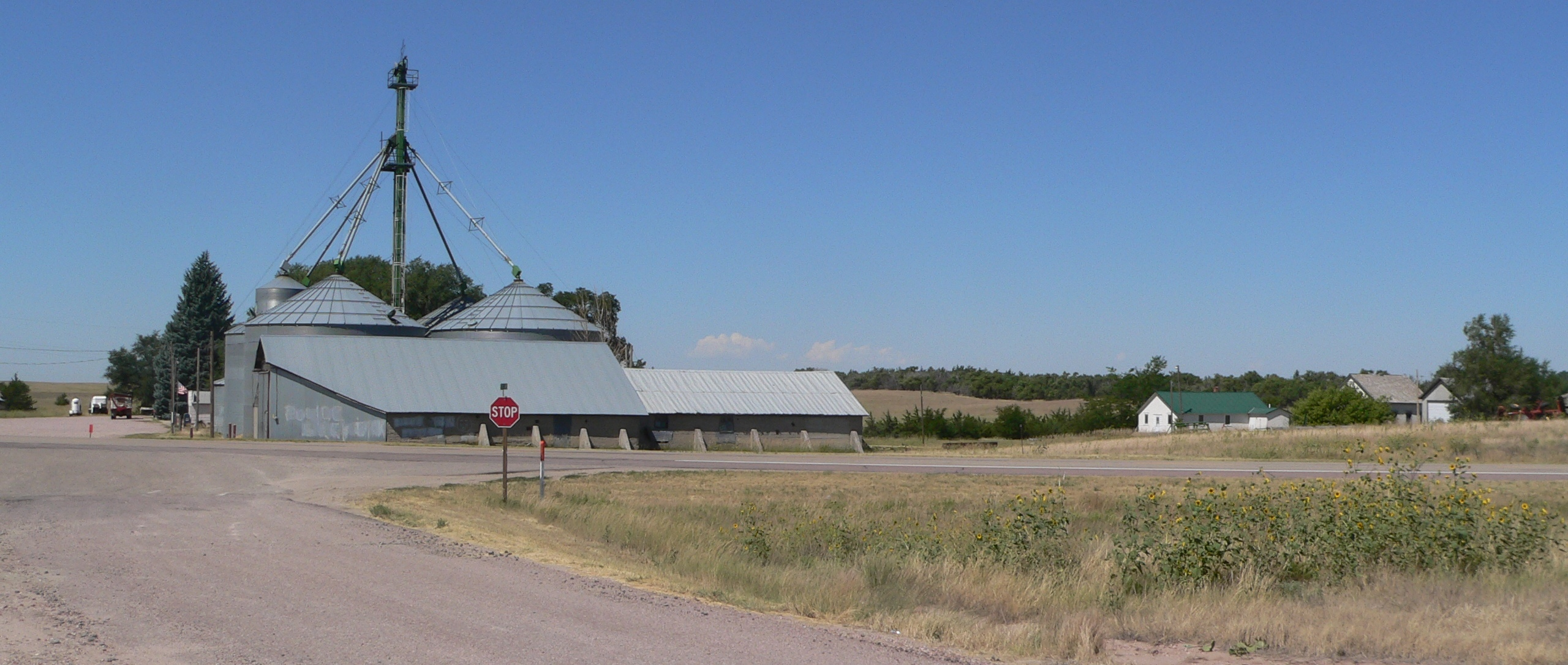 Angora, Nebraska, seen from the east side of U.S. Highway 385.